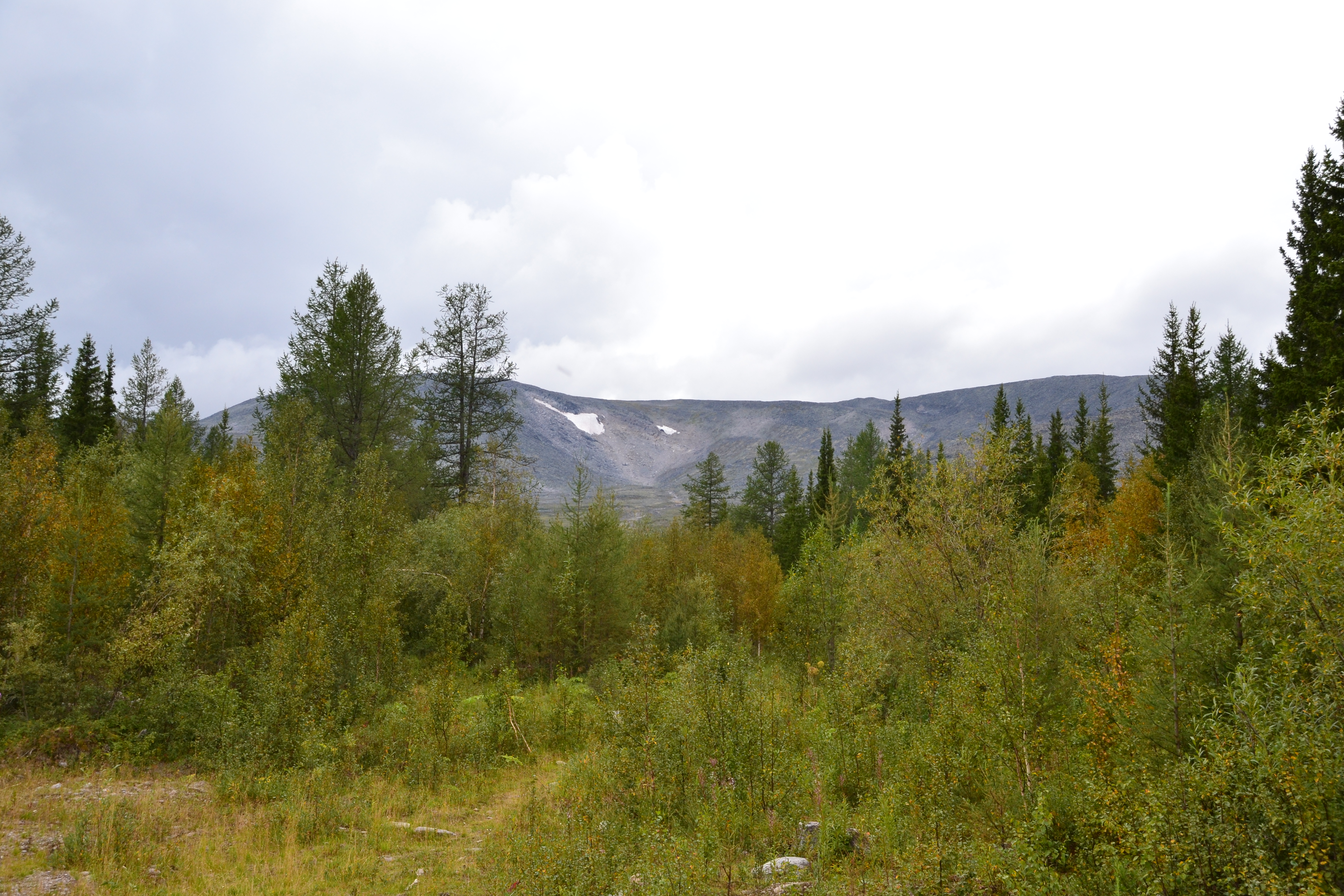 Upland birch forest in Yugyd Va N.P.